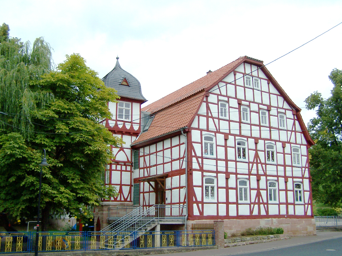 The Castle in Dippach